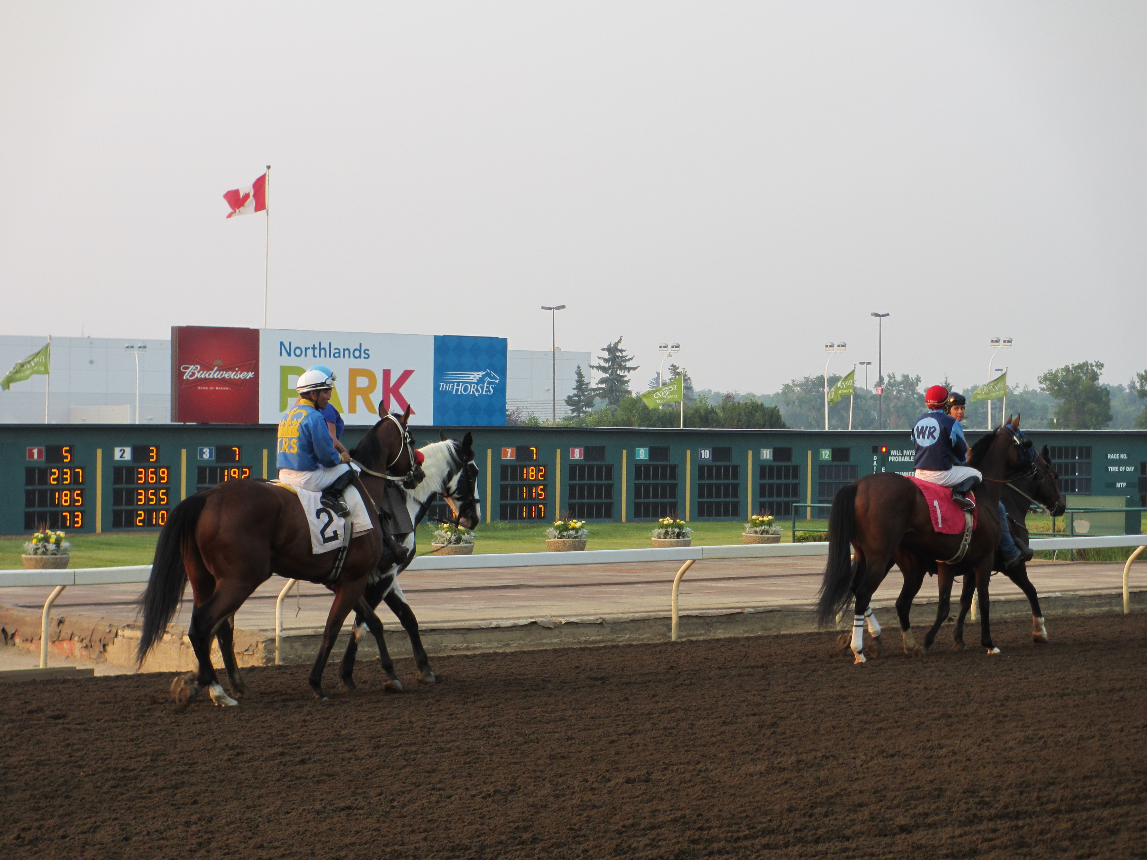 A tweetup held at Northlands Park!